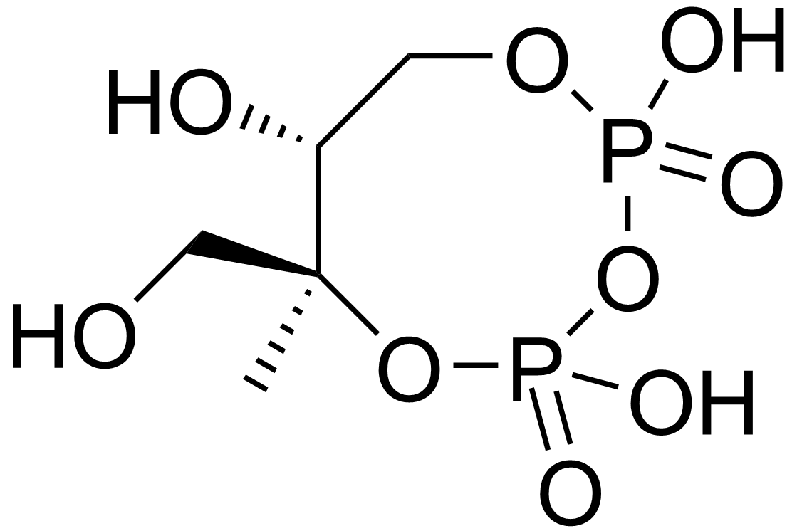 chemical structure of 2-C-Methyl-D-erythritol-2,4-cyclopyrophosphate